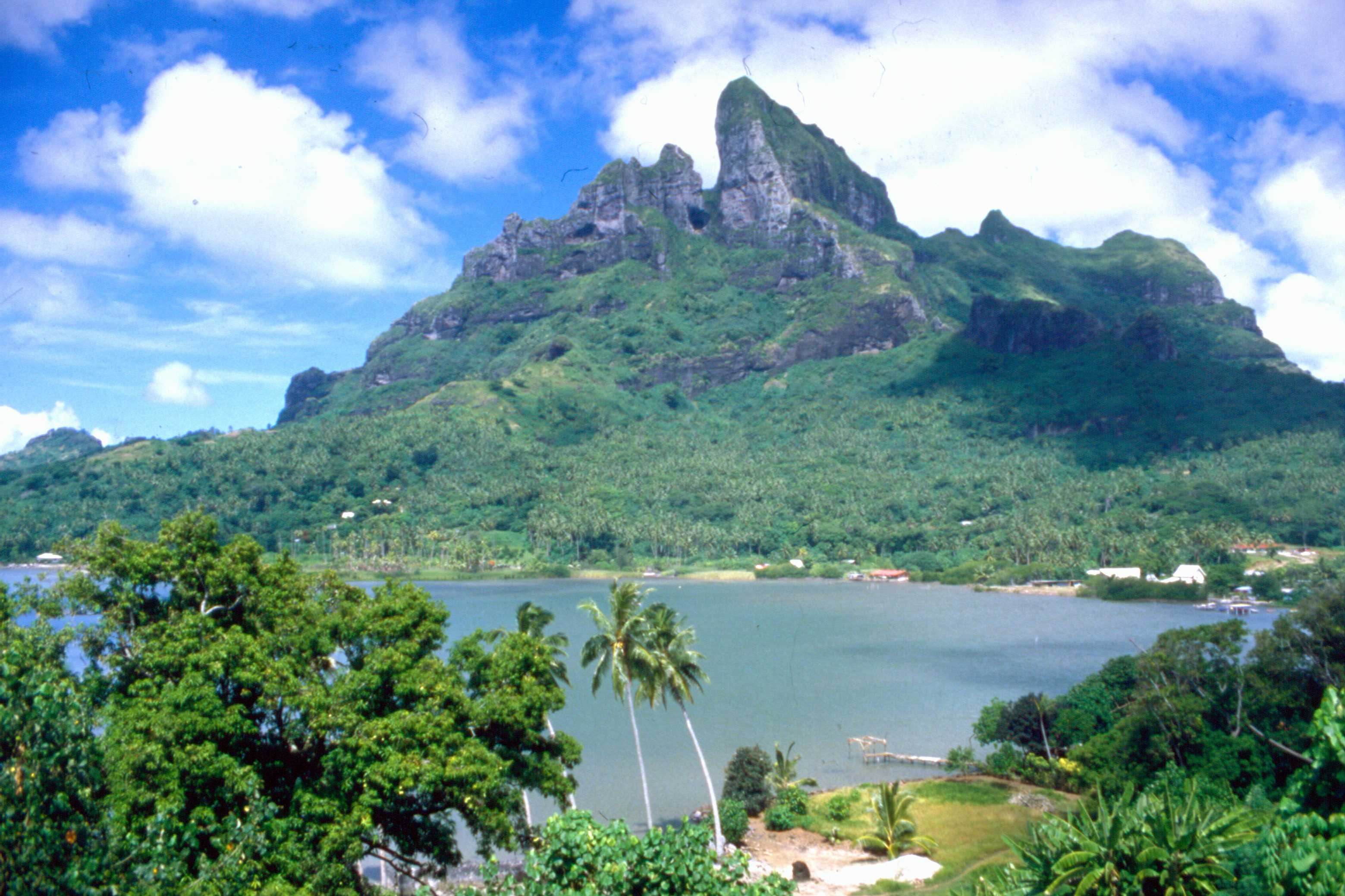 Faanui Bay, Bora Bora, Society Islands, French Polynesia